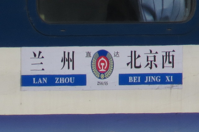 Beijing-Lanzhou train with wine ads.